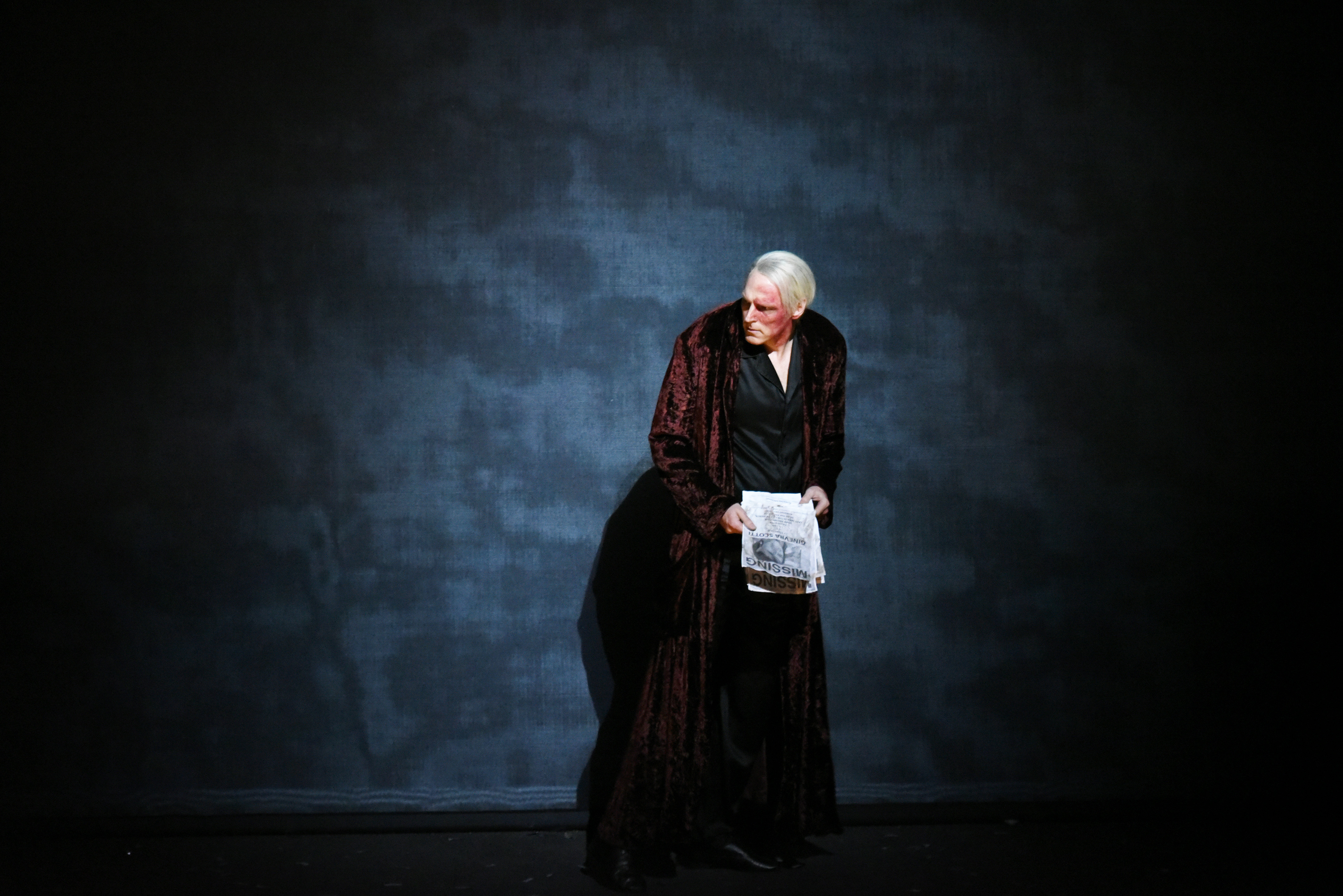 Die Gezeichneten, 1918 opera by Franz Schreker (Opéra de Lyon 2015)